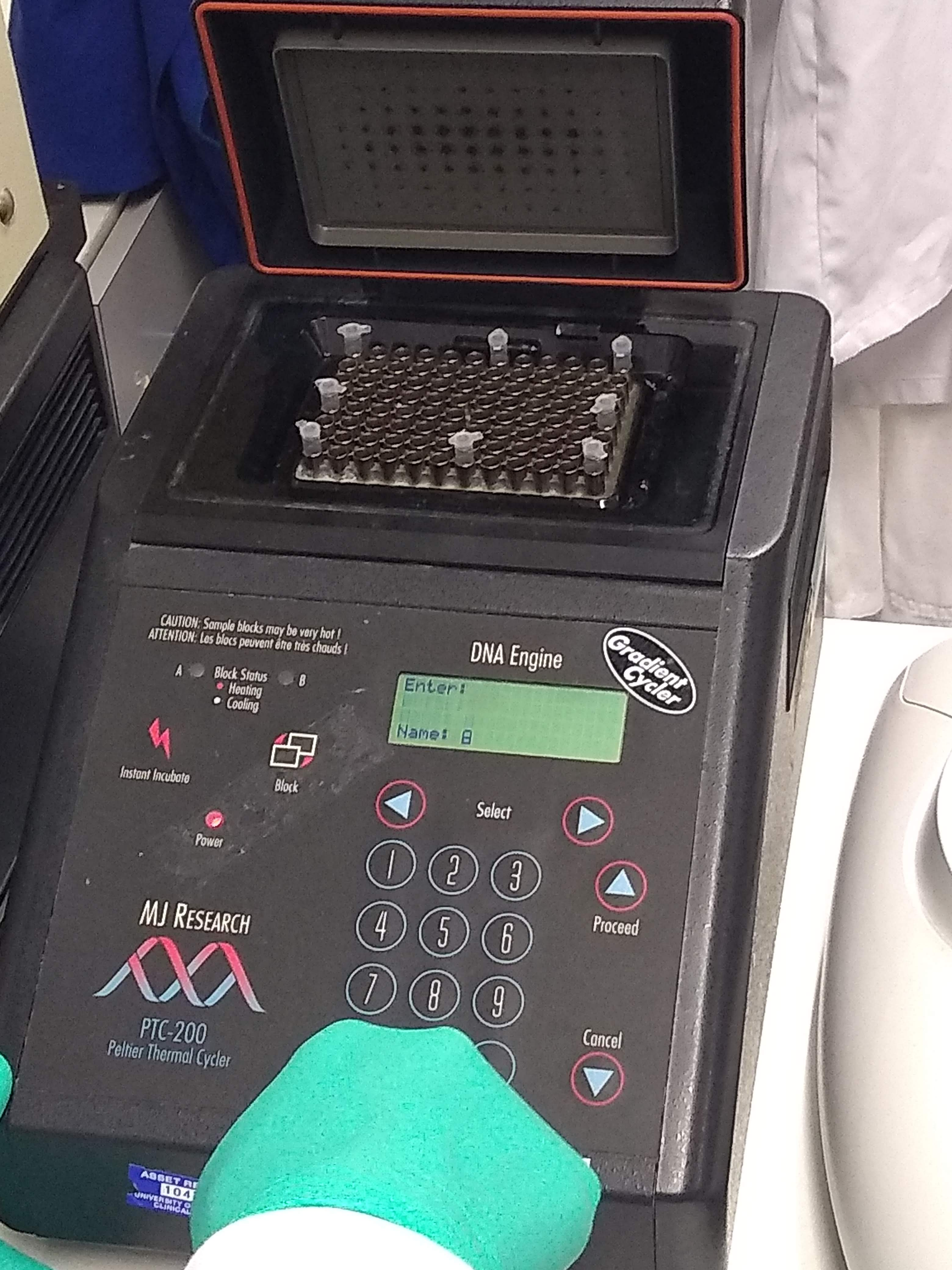 Marshal Scientific MJ Research PTC-200 Thermal Cycler